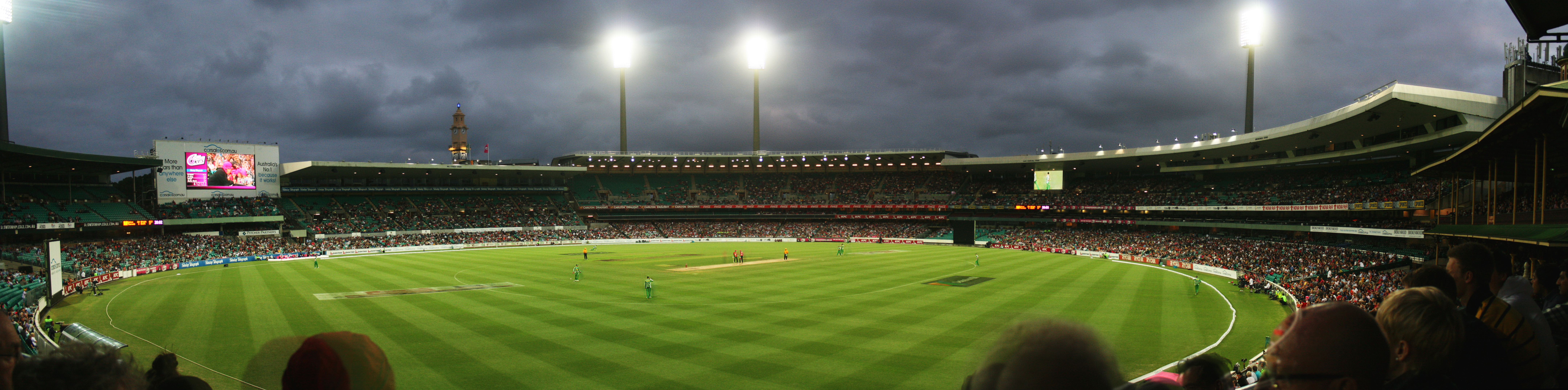 Panoramic view of the SCG during the Big Bash League in 2011